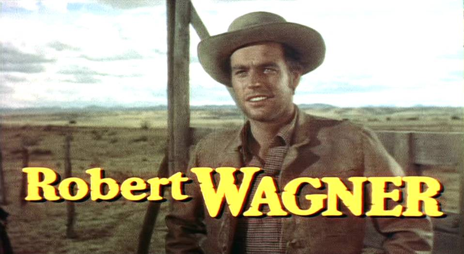 Robert Wagner in a screenshot from the trailer for the film Broken Lance.